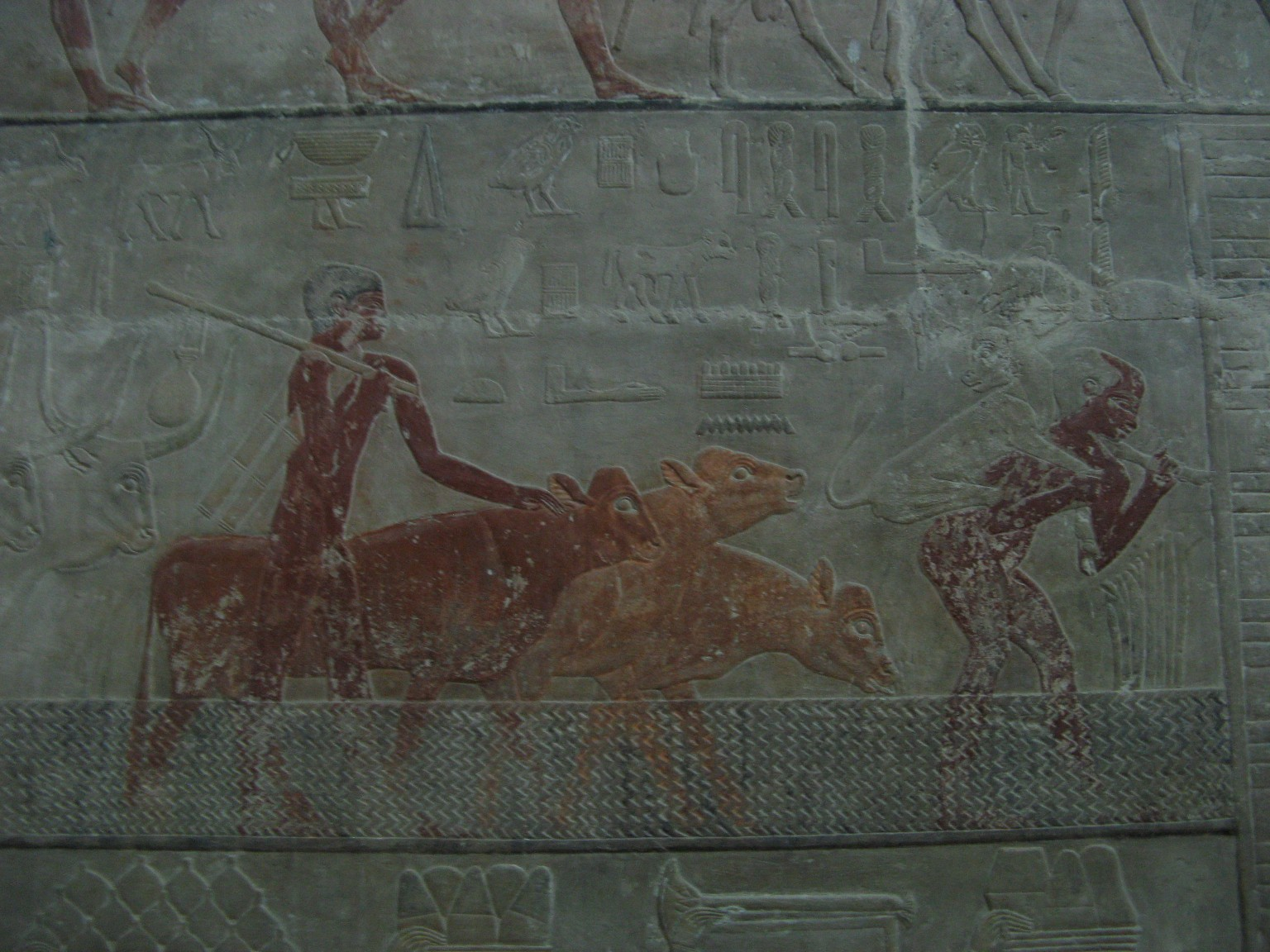 Mastaba of Ti, Saqqara - Crossing a River